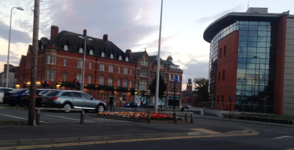 Duke of Edinburgh Hotel and Emlyn Hughes House at the intersection of Abbey Road, Rawlinson Street and Holker Street in Barrow-in-Furness, Cumbria, England.